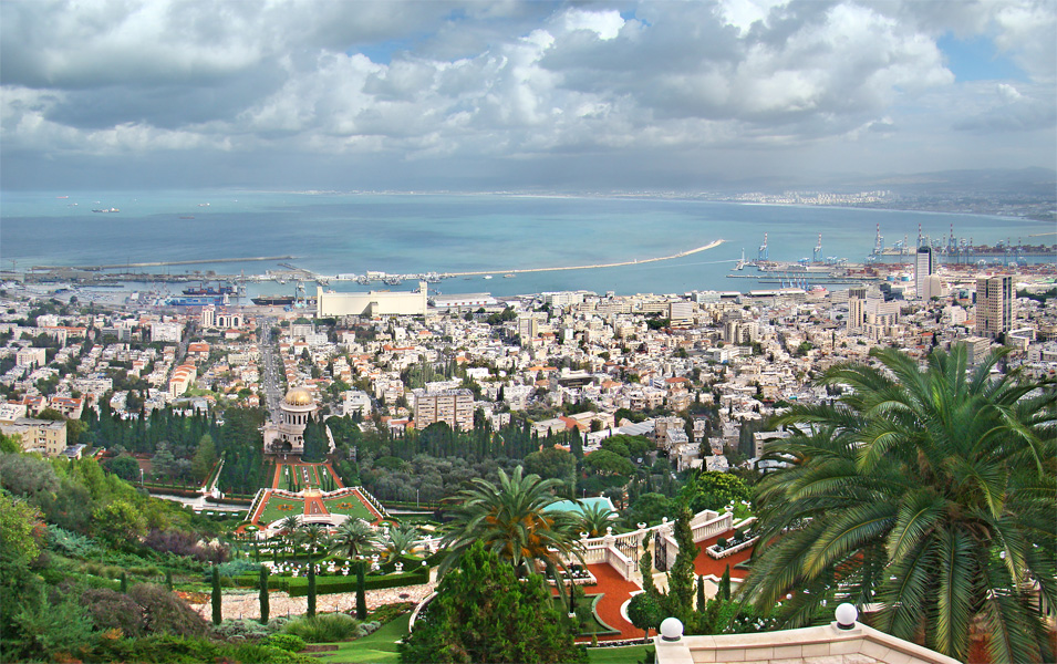 Haifa, Israel. Panoramic view from Mount Carmel, with the Shrine of the Báb and its Terraces in the foreground.